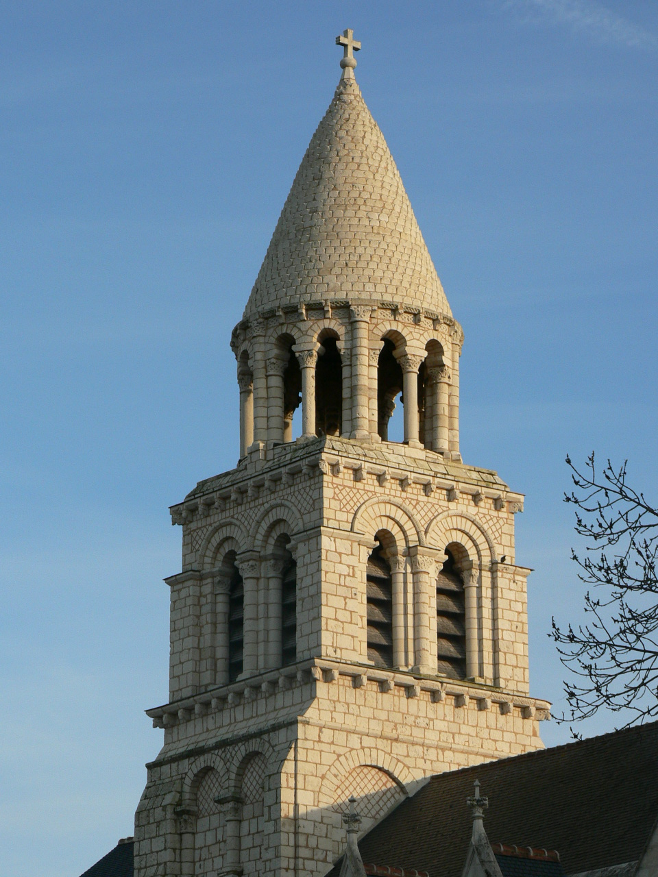 Description: Notre Dame La Grande of Poitiers Photographer/illustrator: Eyone Uploader: Eyone Date & location: 16 april 2006 - Poitiers, France